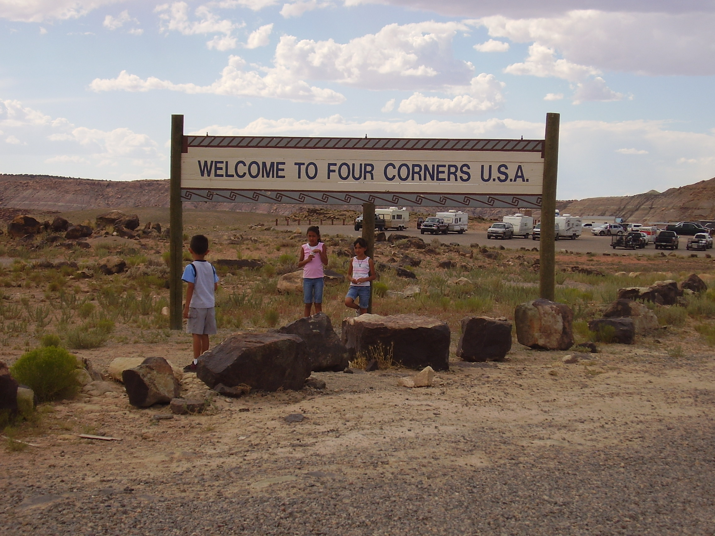 Sign welcoming visitors to the Four Corners Monument area